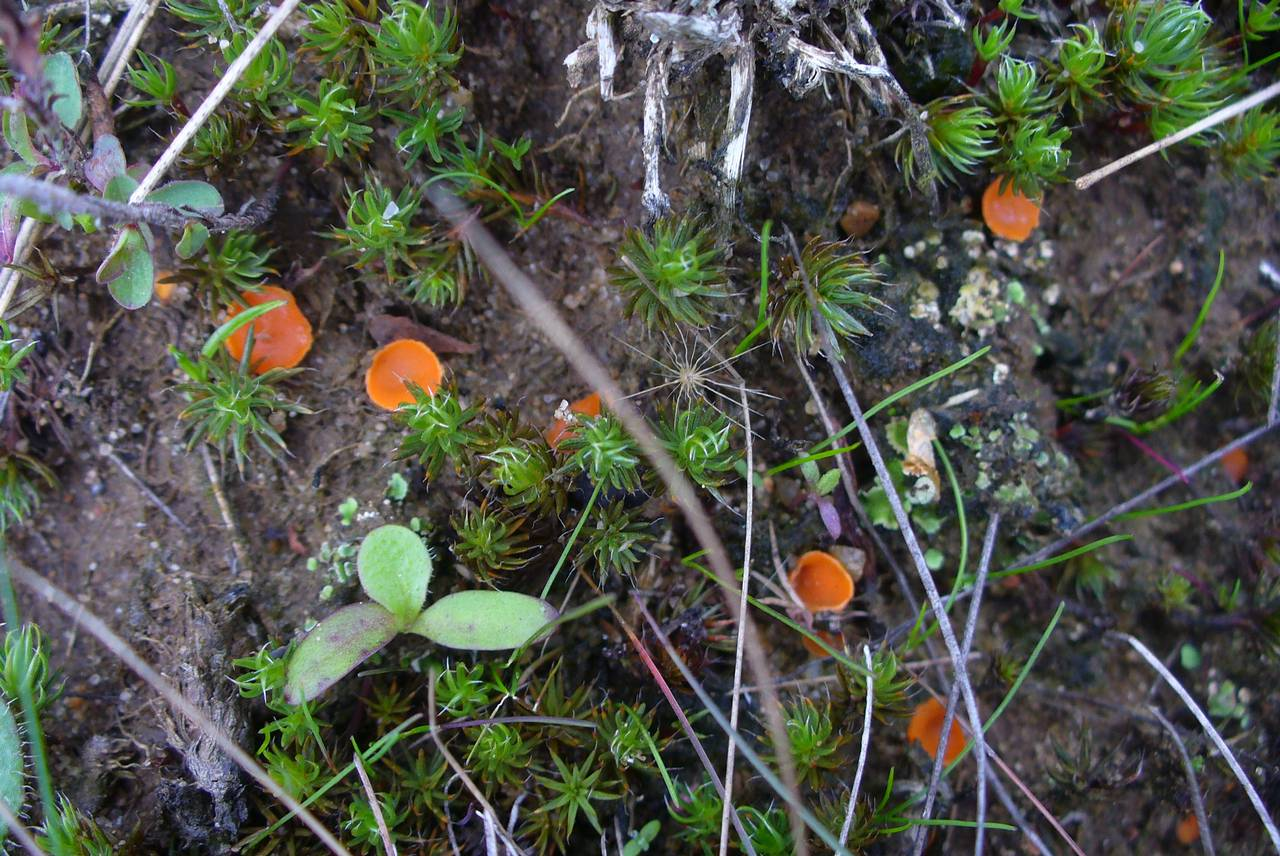 Octospora humosa (Fr.) Dennis Image location: Hannover-Langenhagen, Niedersachsen, Germany Recognized by sight Based on microscopic features For more information about this, see the observation page at Mushroom Observer.